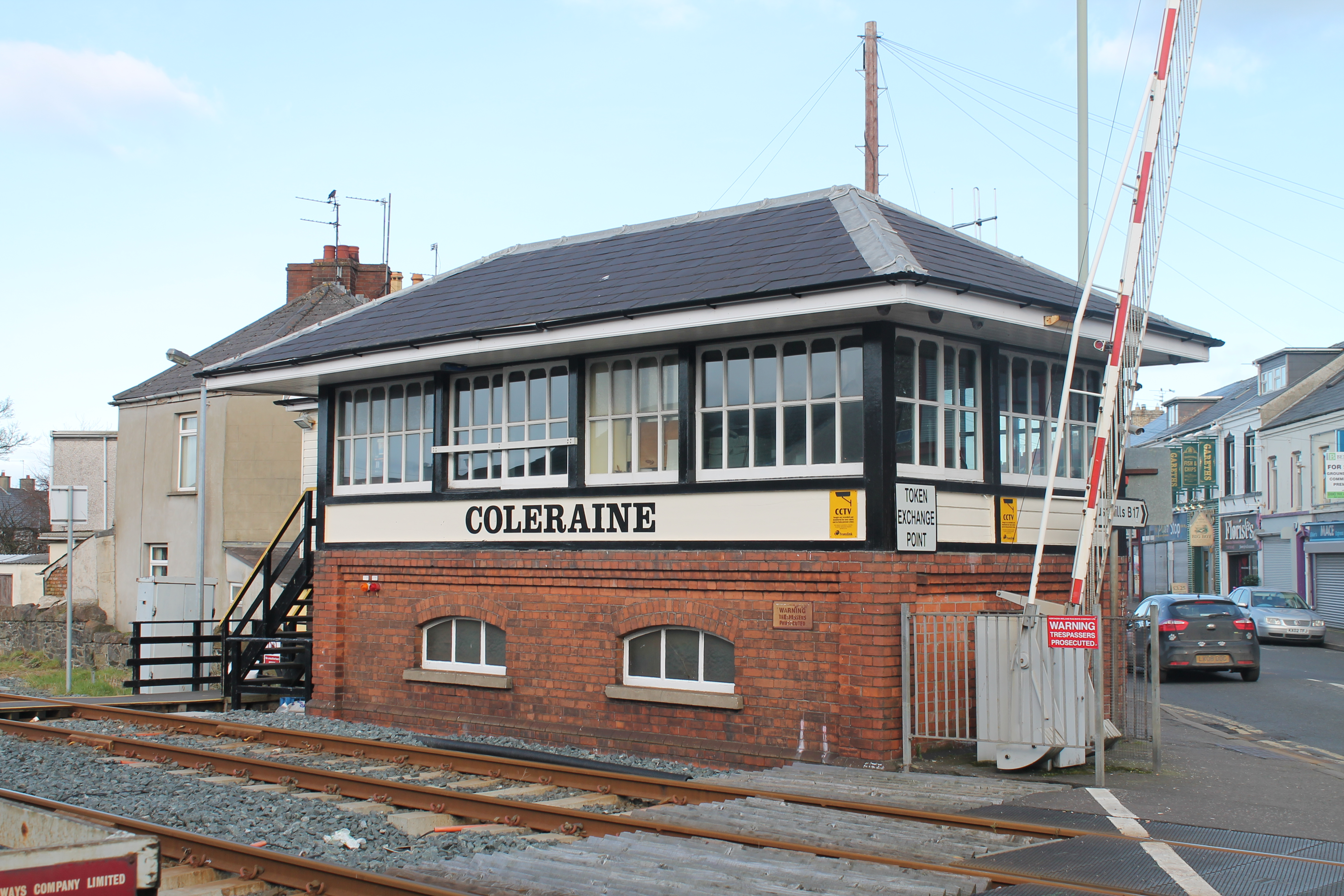 The BNCR signal cabin at Coleraine